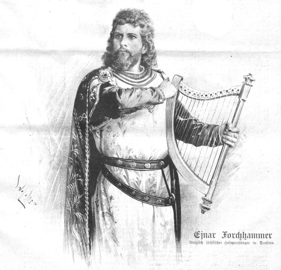 Portrait of Ejnar Forchhammer (1868-1928), Danish opera singer.